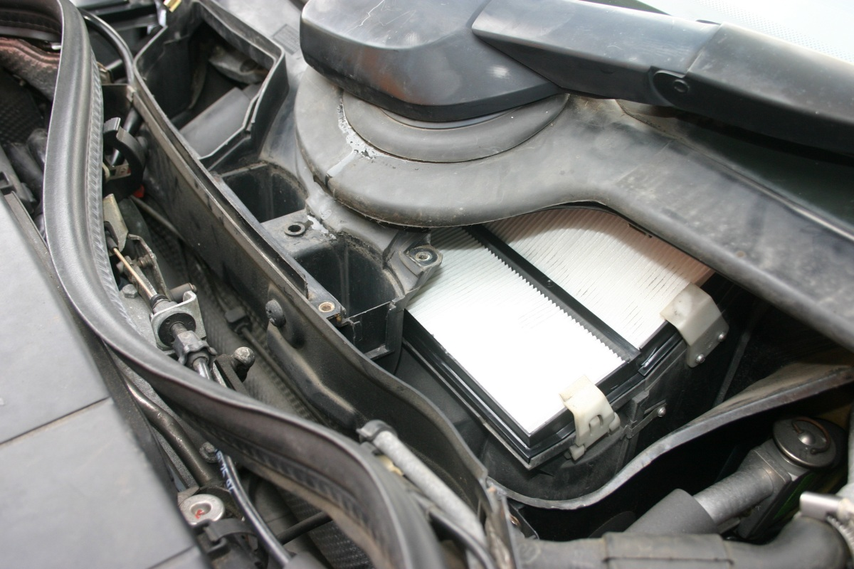 Photograph of cabin air filters for a 1994 Mercedes E500